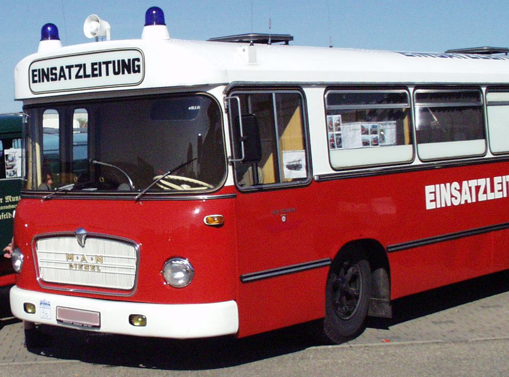 Fire engine, manufacturers: MAN